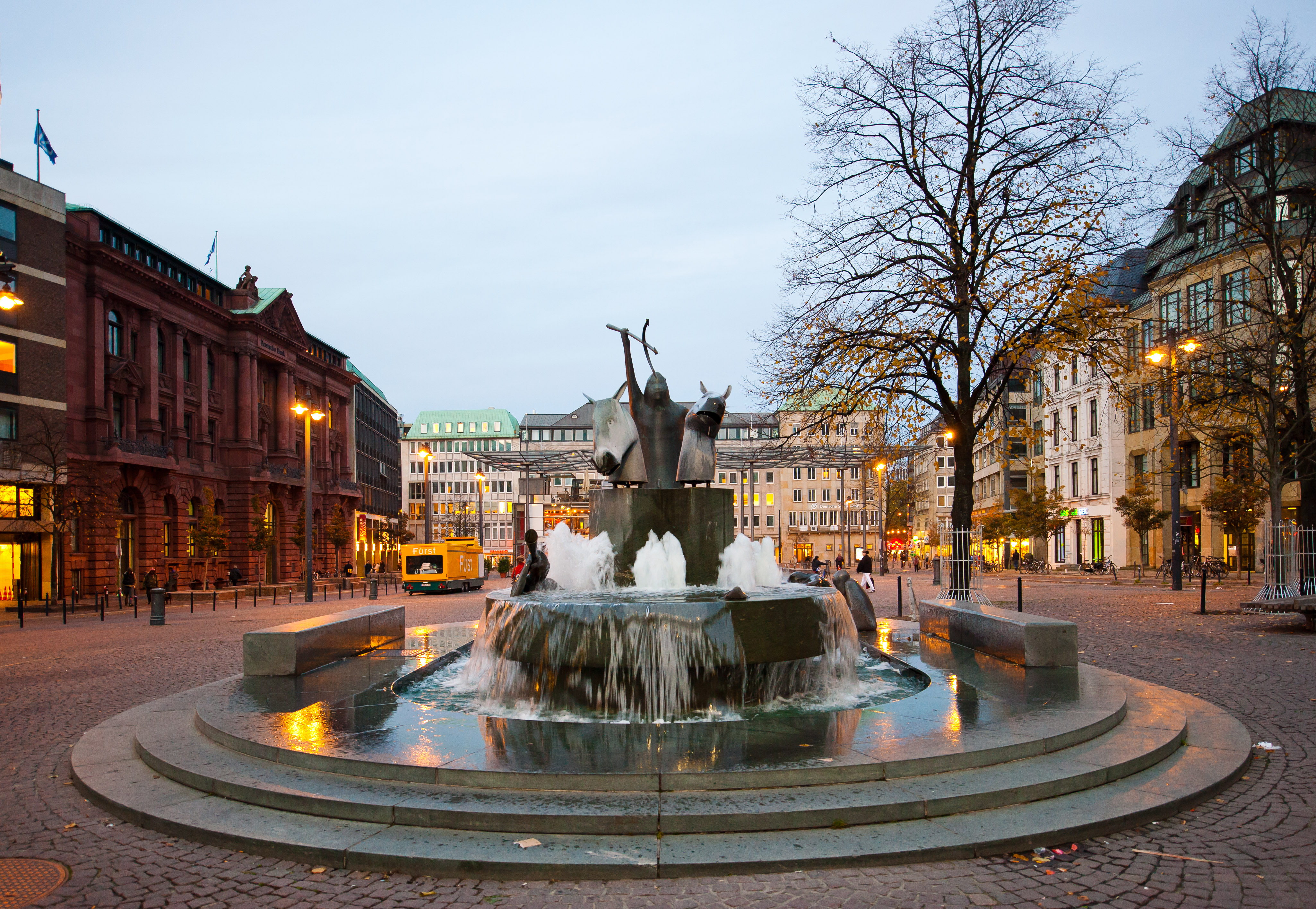 The Neptune Fountain in Bremen